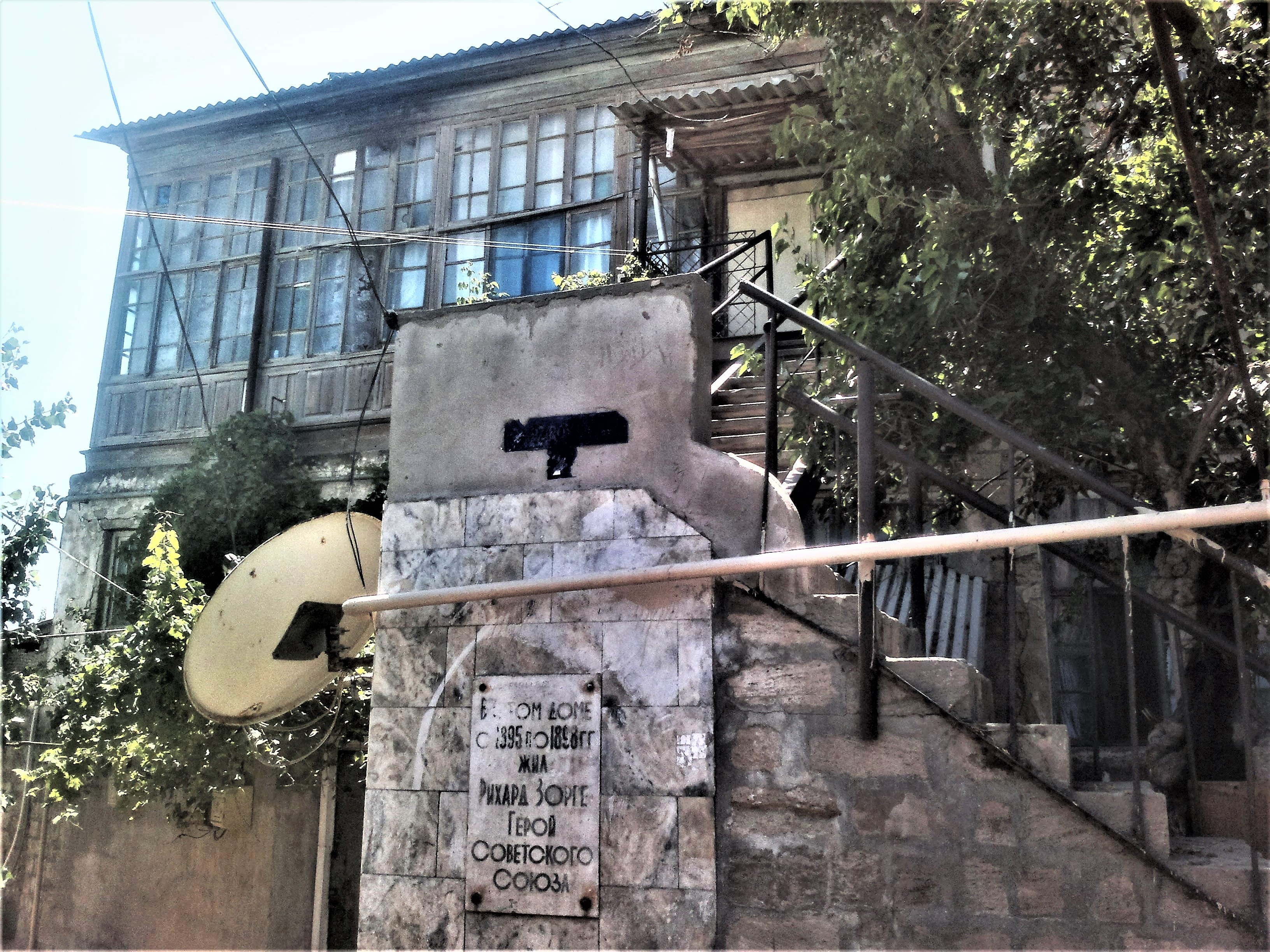 House in Sabunchu where from 1895 till 1898 Richard Sorge lived